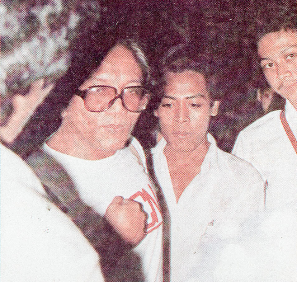 Arifin C. Noer answering questions at the 1982 Indonesian Film Festival in Jakarta